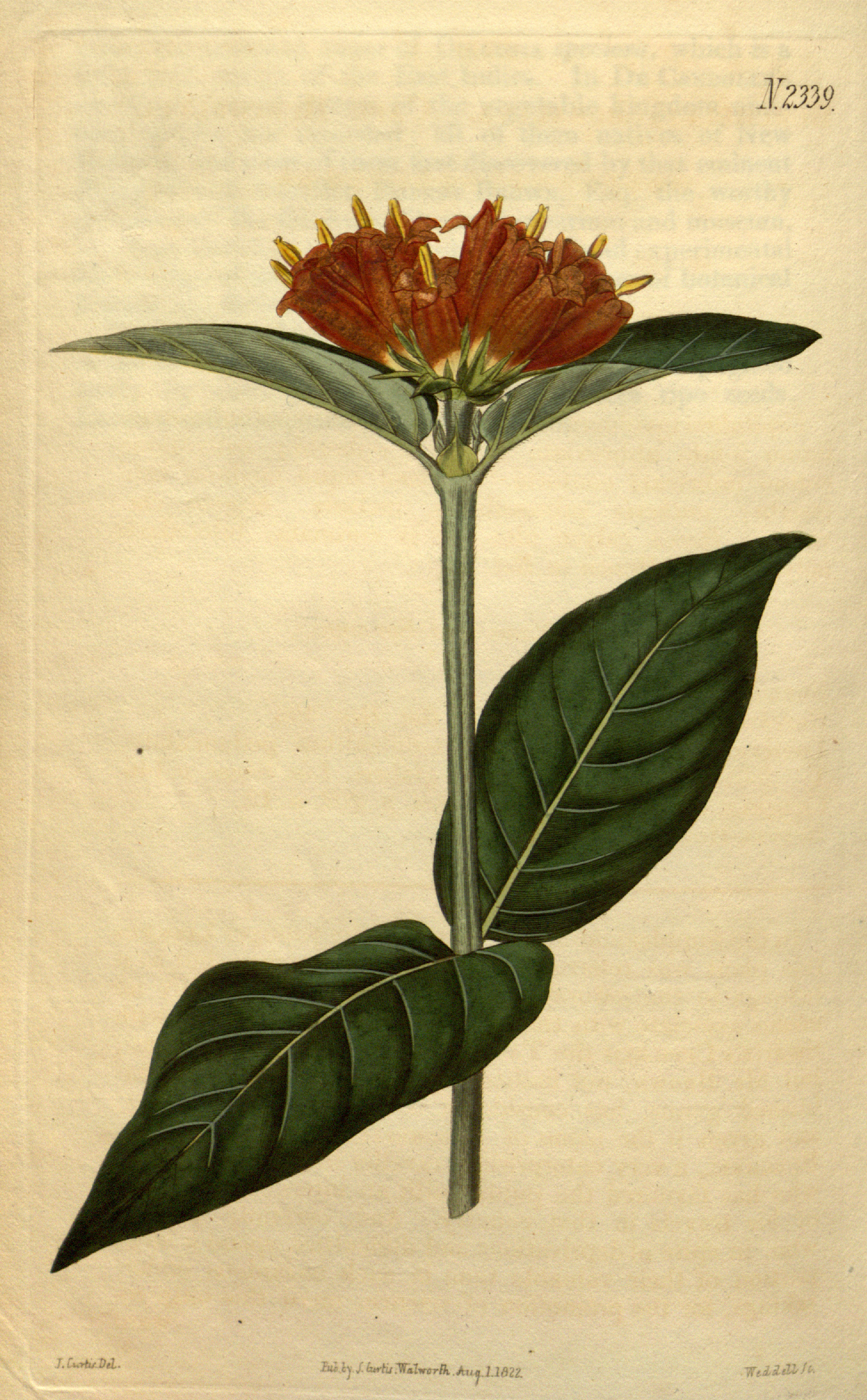 This is a scan of tab 2339 Burchellia bubalina.